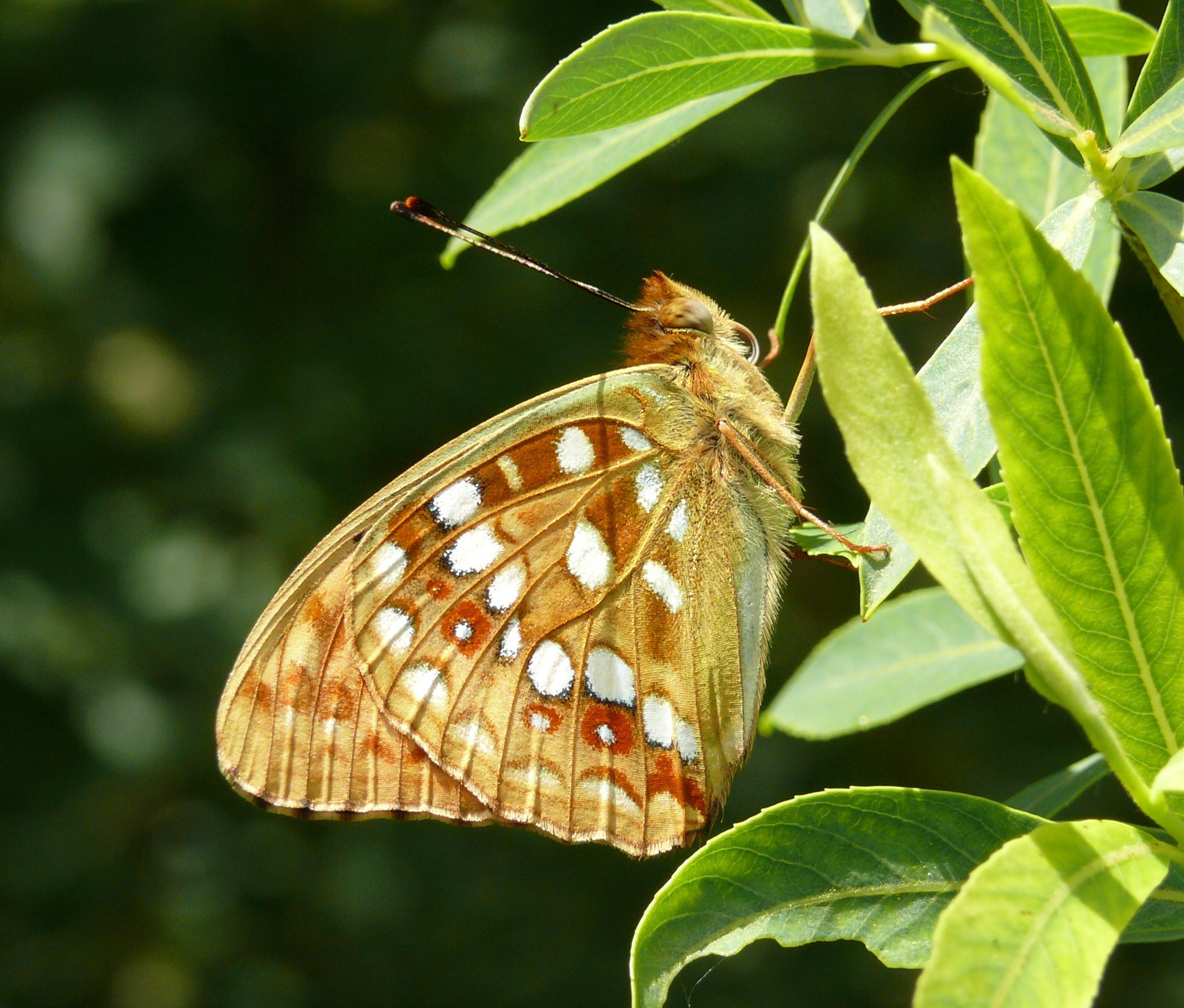 High Brown Fritillary butterfly, photographed in Munich, Germany